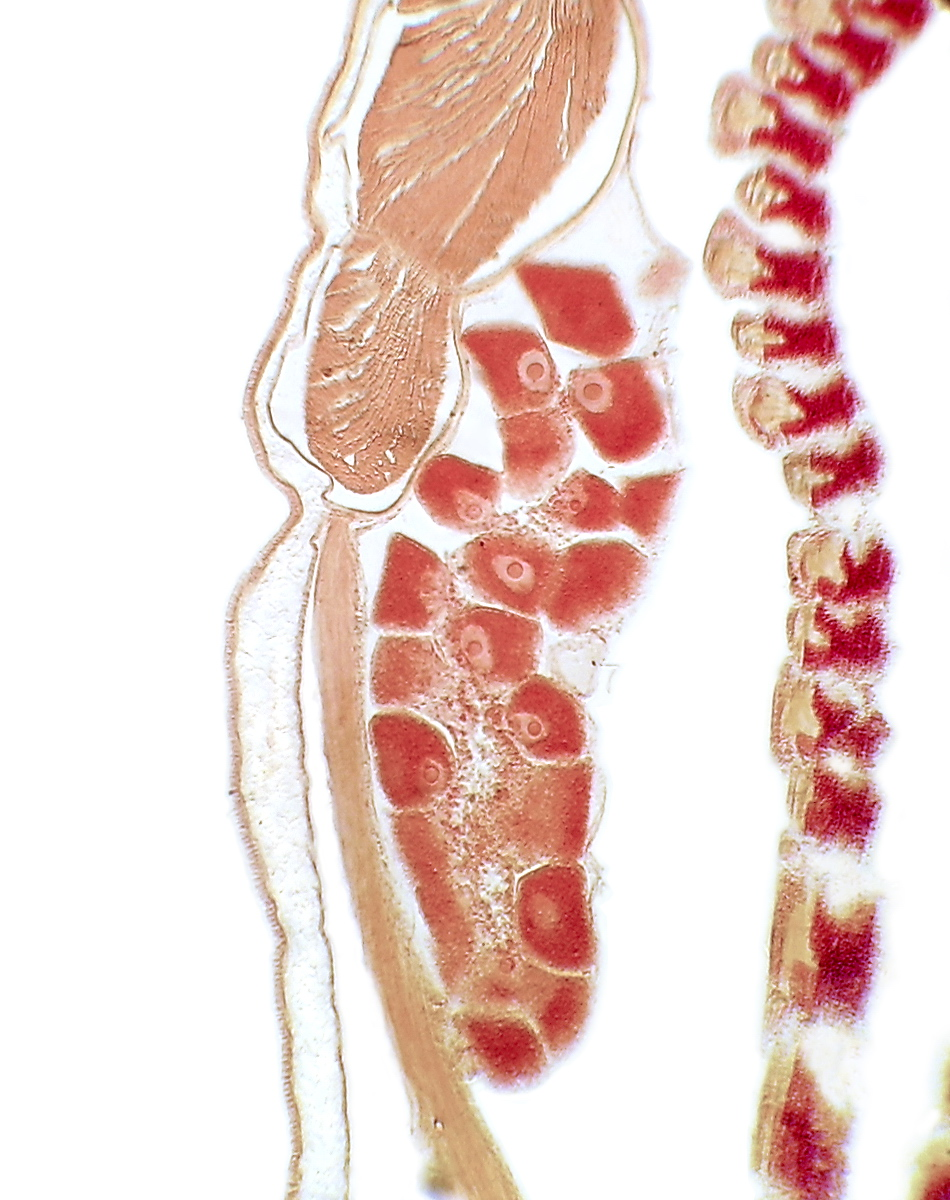 Lancelet's ovary